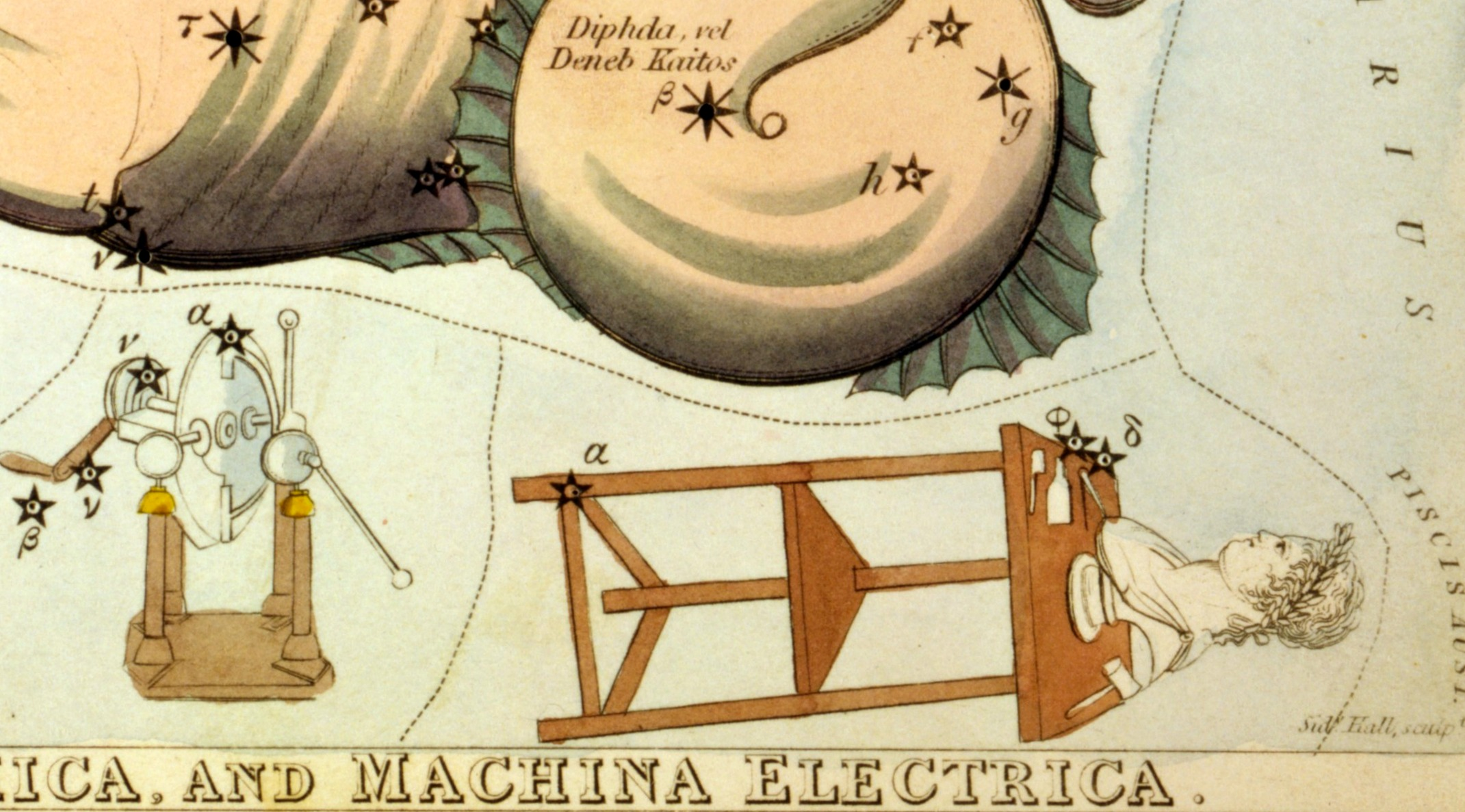 Detail of plate 28 in Urania's Mirror, a set of celestial cards accompanied by A familiar treatise on astronomy ... by Jehoshaphat Aspin. London. Astronomical chart showing Perseus holding bloody sword and the severed head of Medusa forming the constellation. 1 print on layered paper board : etching, hand-colored.